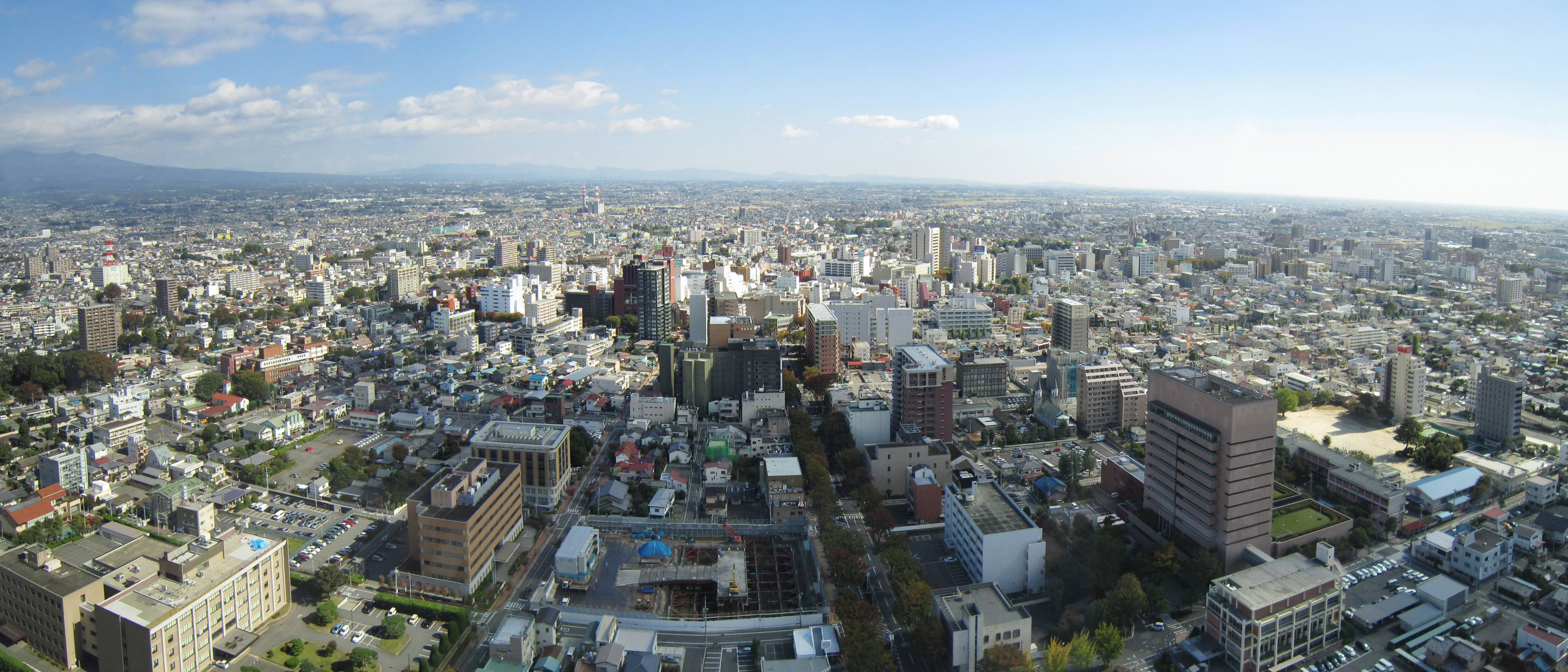 View from Gunma Prefectural Government Building (Maebashi, Gunma).